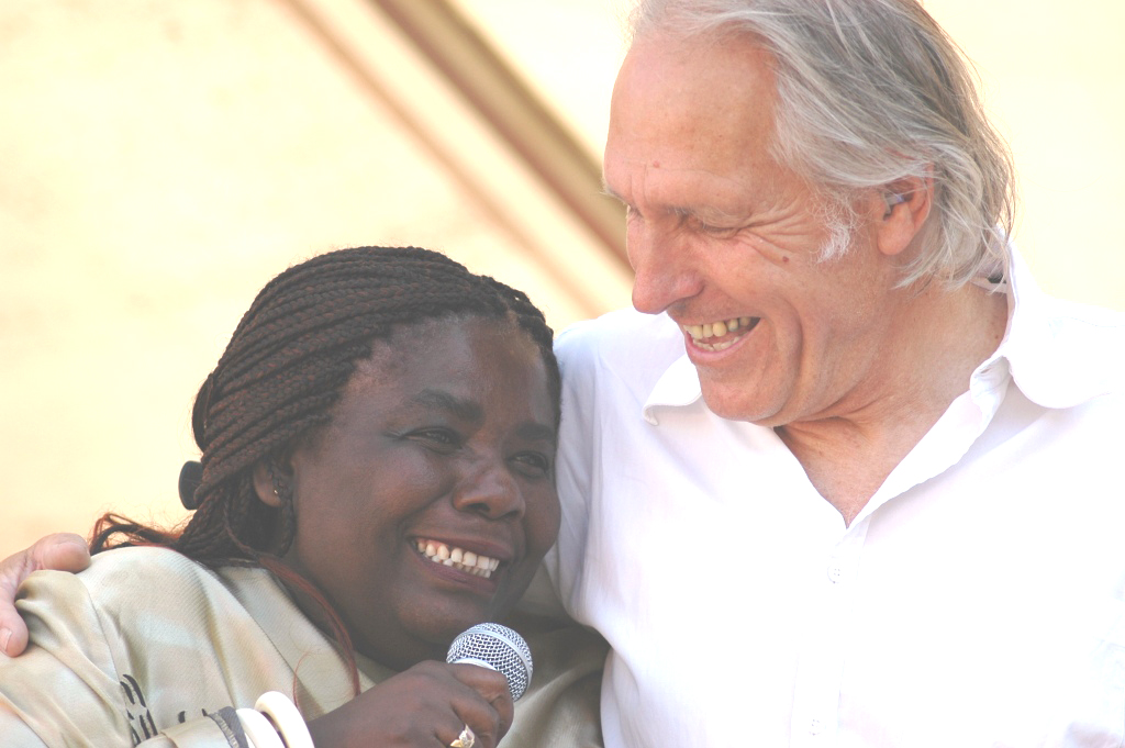 Alice Wamulume en Theo Jansen